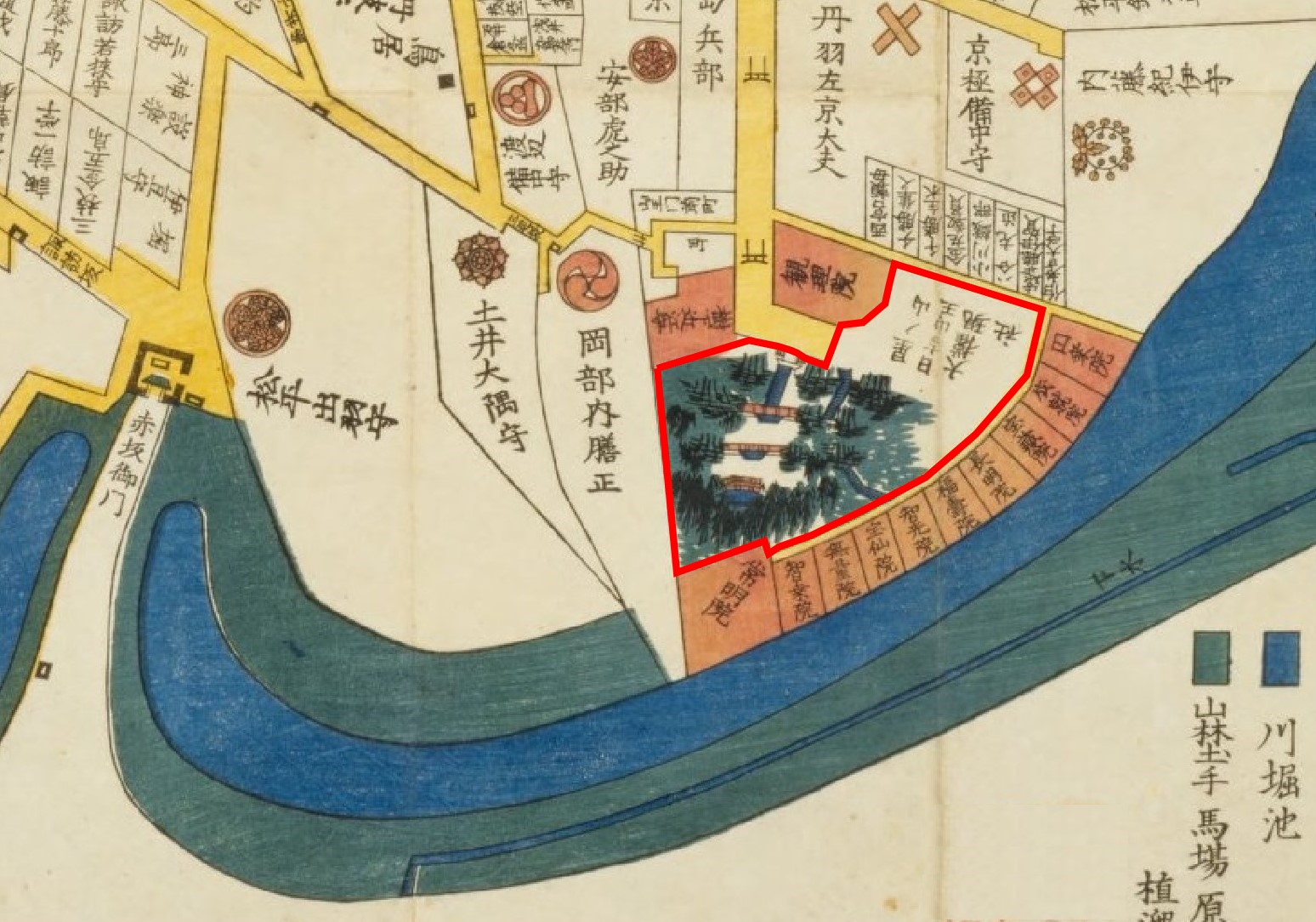 Hie-Shrine at Edo